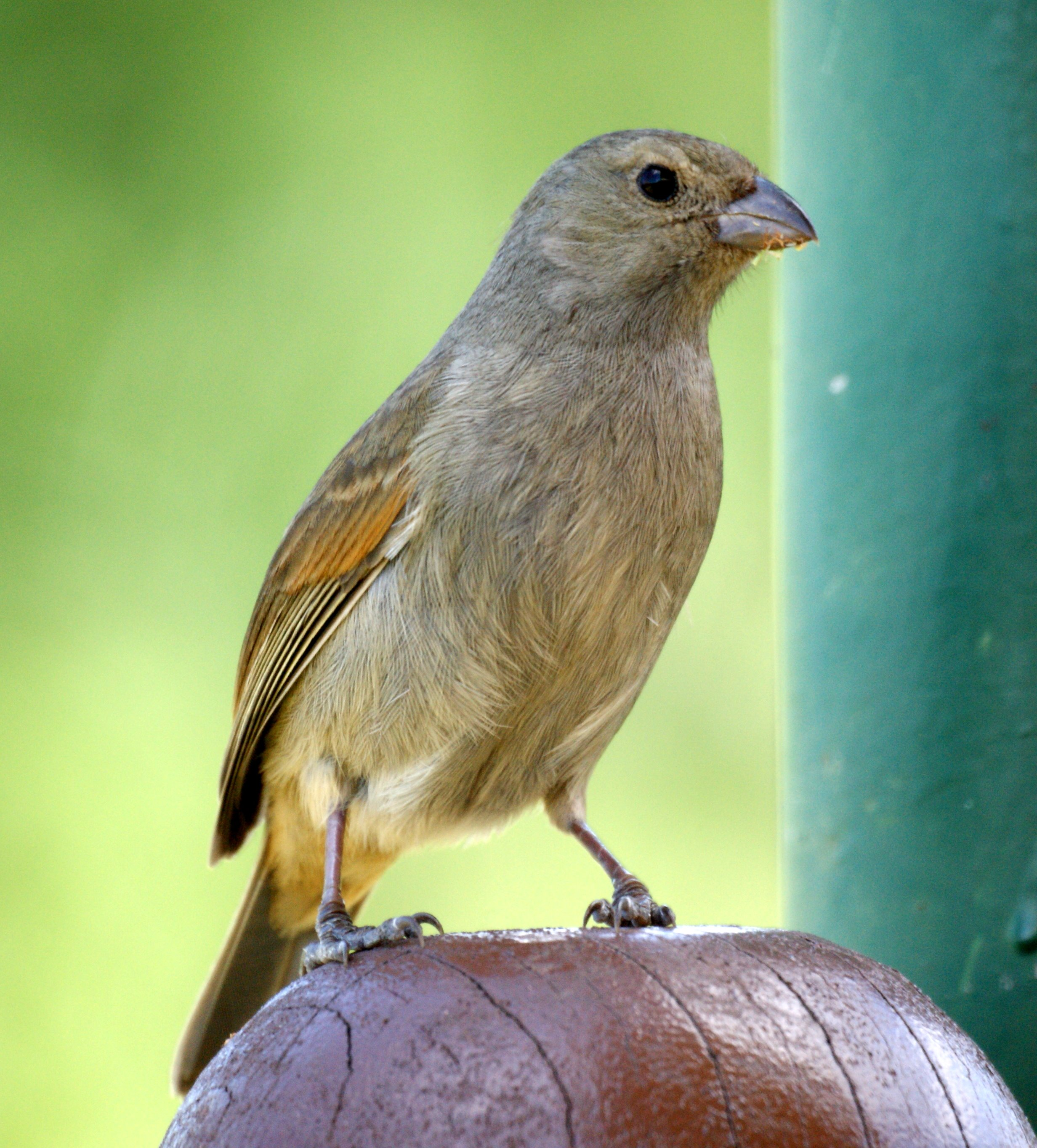 A Barbados Bullfinch in Barbados, Lesser Antilles, Caribbean.